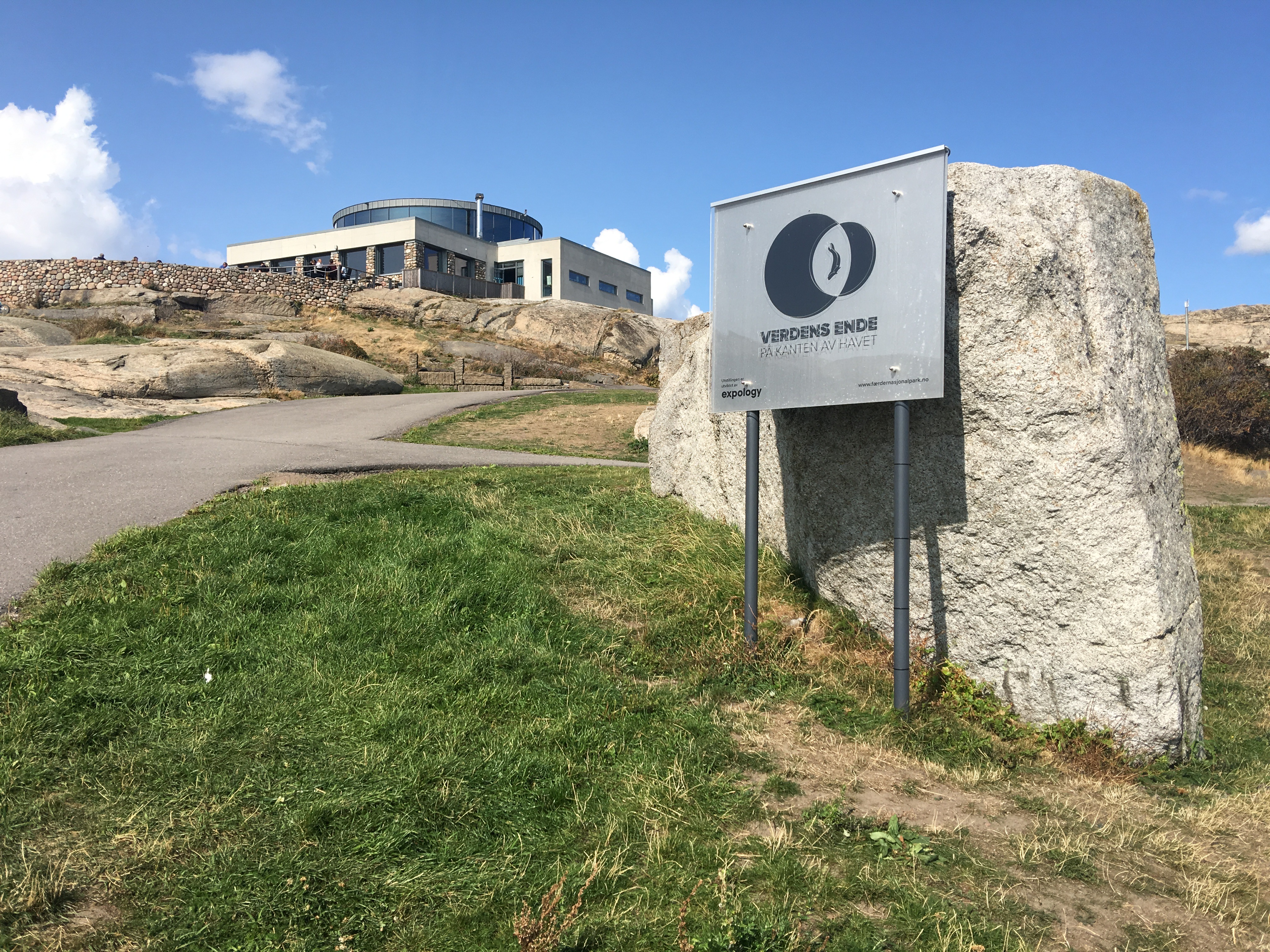 Visitor centre for Færder National Park, a large section of outer Oslofjorden, at the southernmost tip of the island of Tjøme in Vestfold, Norway. The park covers 340 square kilometres of mainland, islands, skerries and sea bed in the municipality of Færder.